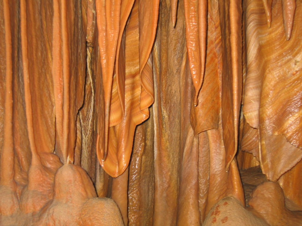 Drapery in Soreq Cave